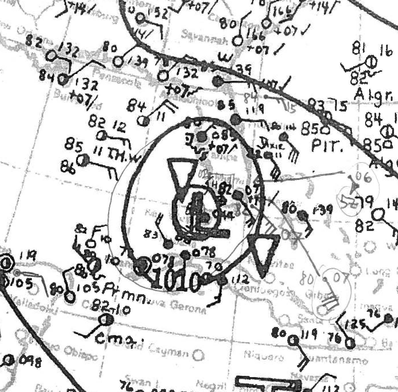 Surface analysis of Hurricane Three of the 1932 Atlantic hurricane season passing over Key West, Florida.